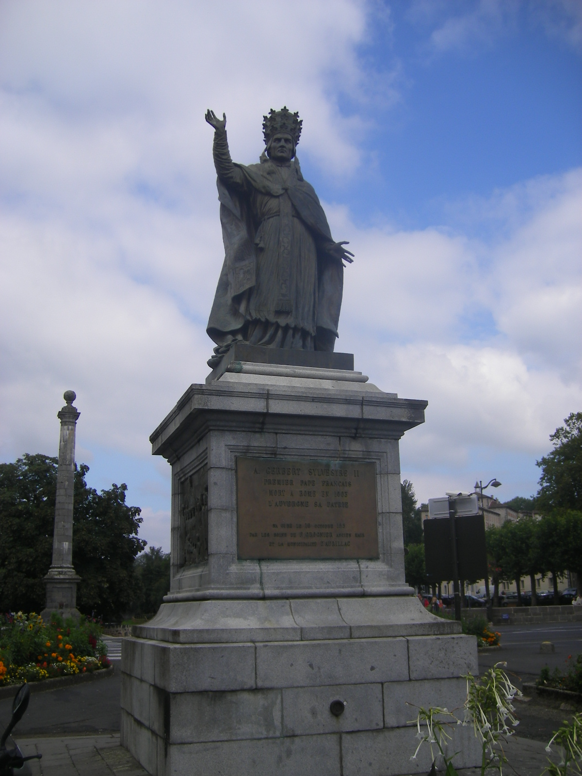 Aurillac, statue of Sylvester II.